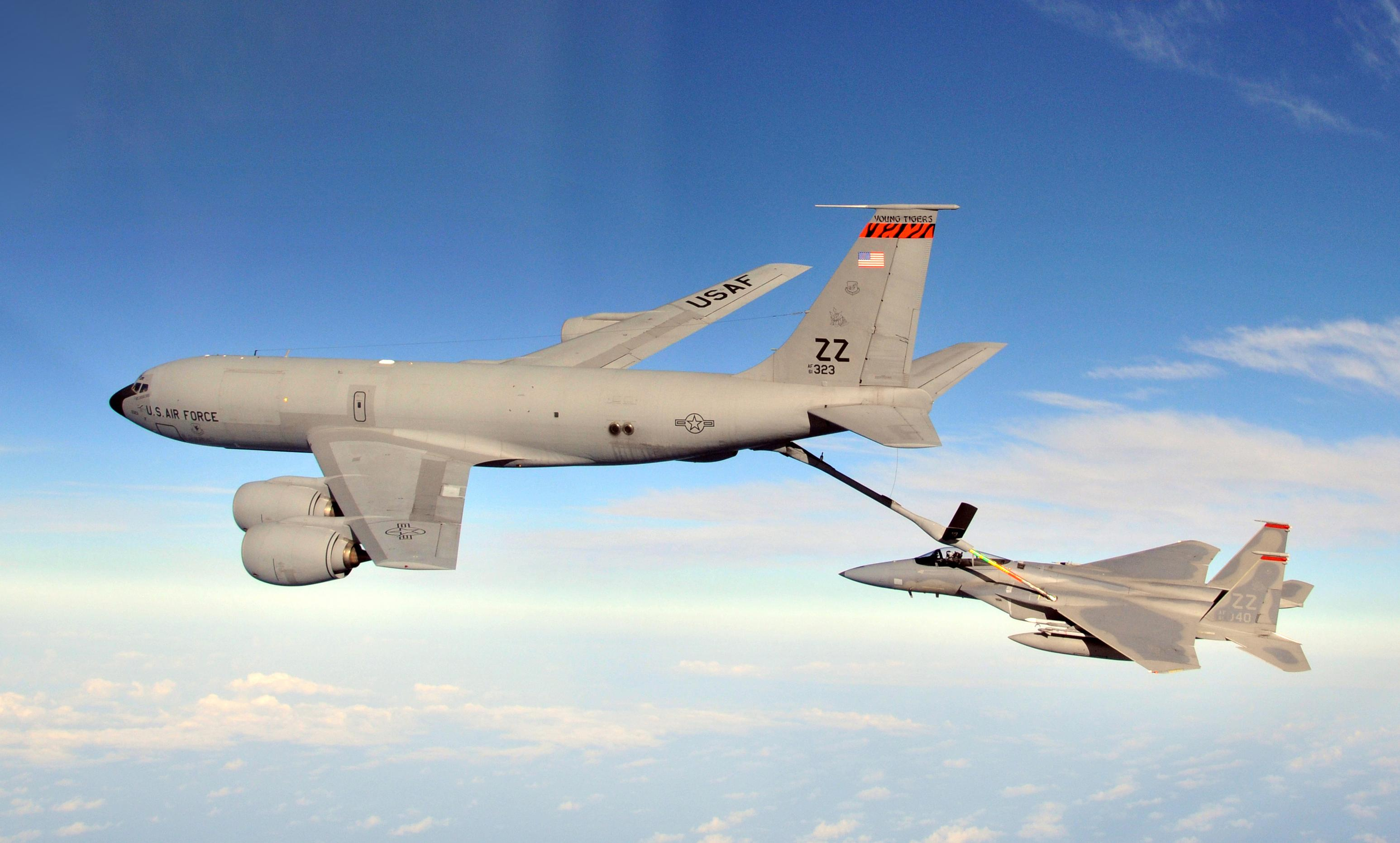 F-15C Eagles from the 67th Fighter Squadron at Kadena Air Base, Japan, are refueled by a KC-135R Stratotanker from the 909th Air Refueling Squadron during joint bilateral training with other U.S. forces and the Japan Air Self Defense Force Feb. 25, 2010.